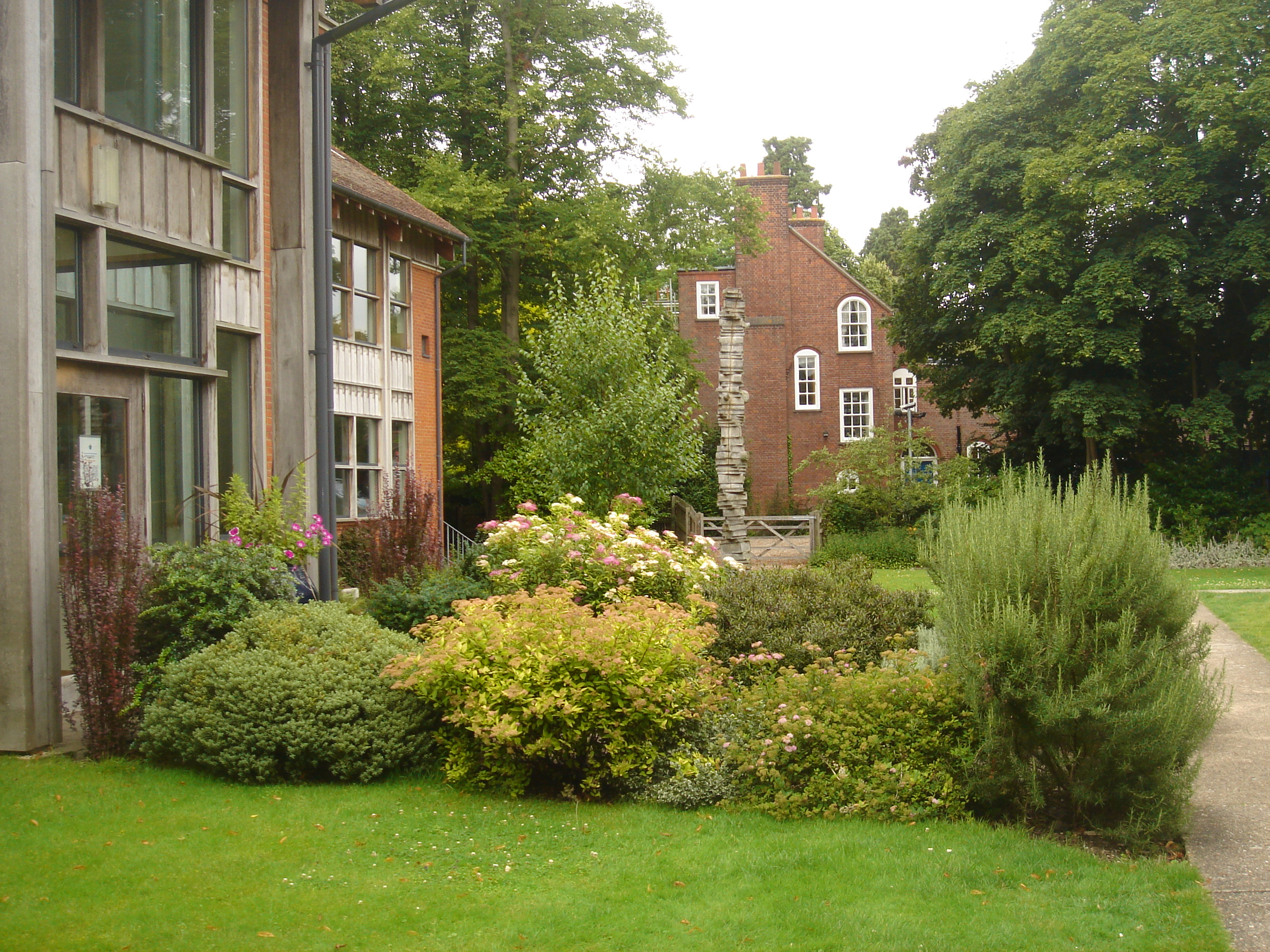 Lucy Cavendish College library from the front with Marshall House in the background